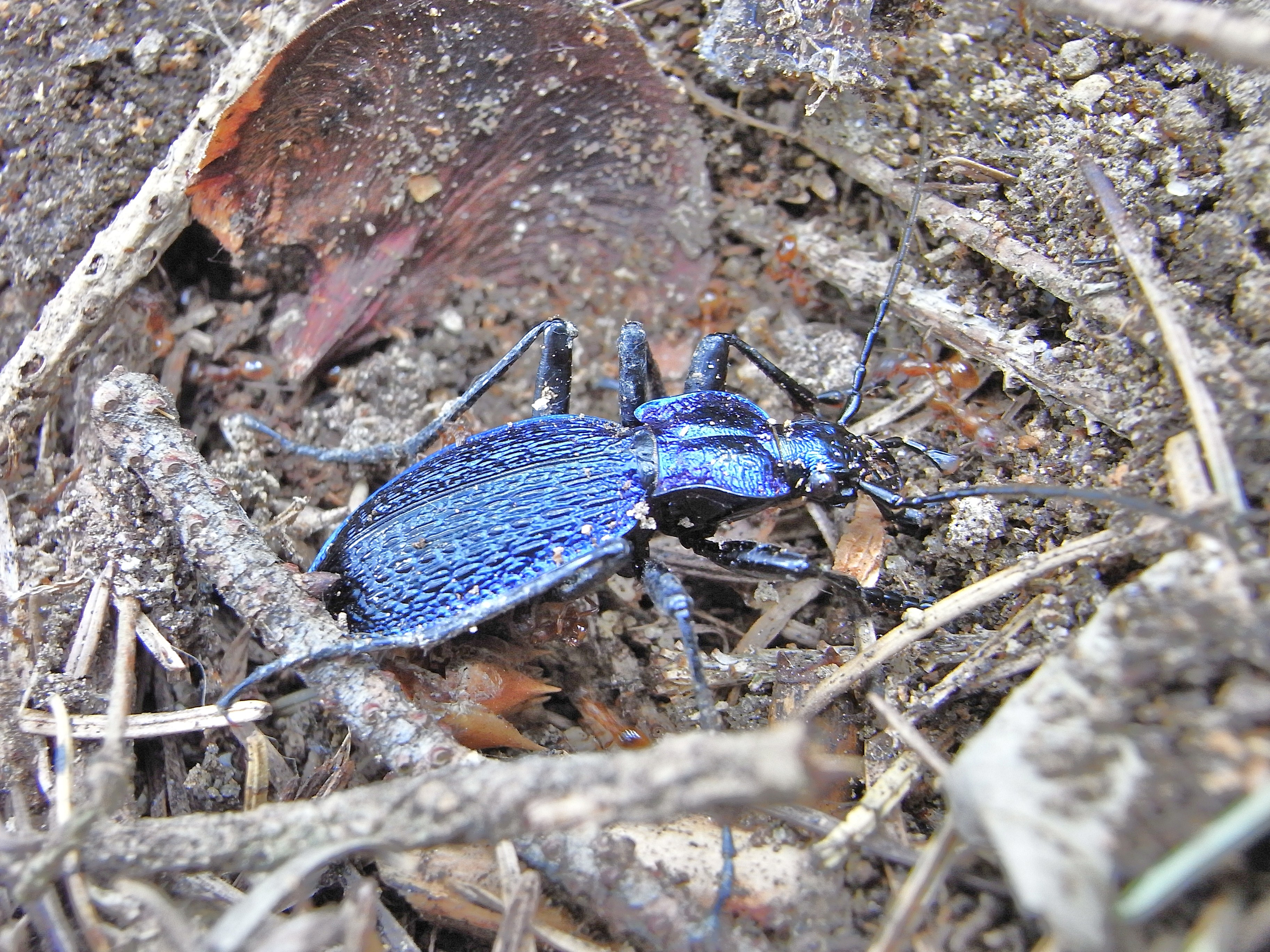 Carabus intricatus from West-Hungary near Kondorfa at 2010-050-07 Ricoh R8